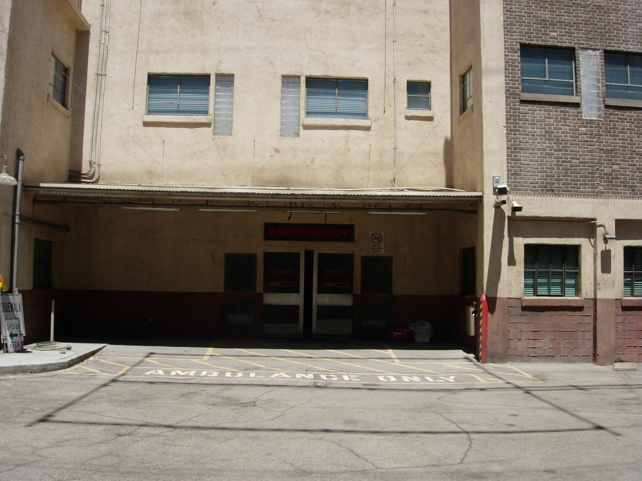 Emergency room entrance for E.R. set at Warner Brothers studio, Burbank.